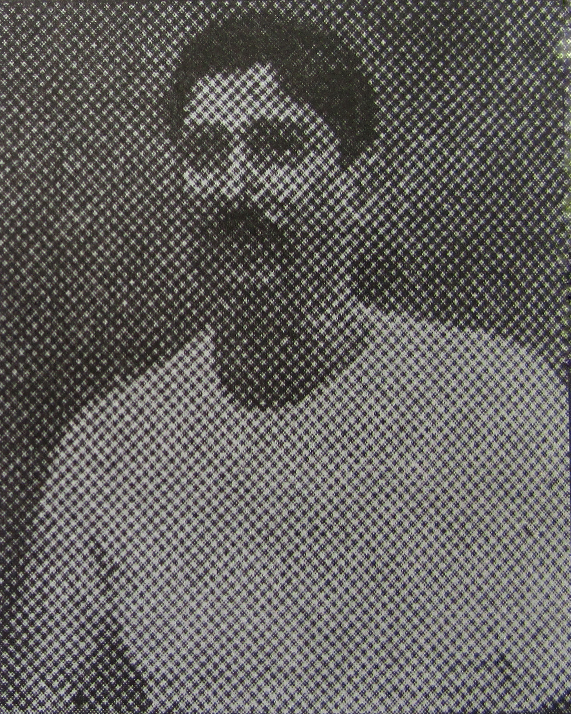 Hemendrkishore Acharya Chowdhury